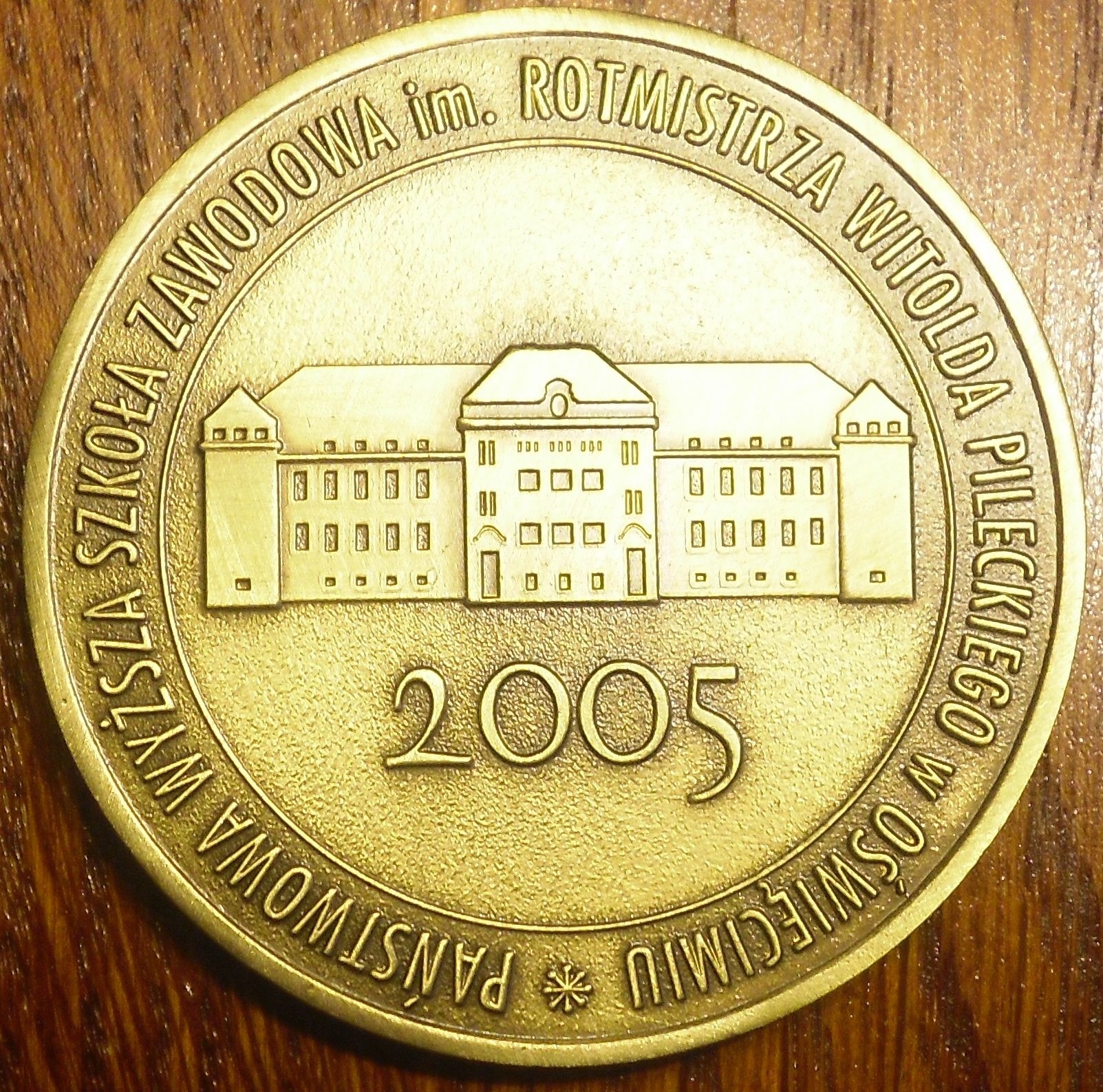 Rittmeister-Witold-Pilecki-Medaille (Rückseite